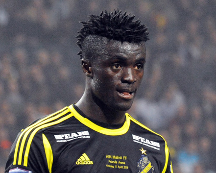 Kwame Karikari during the 2013 match AIK-Malmö FF